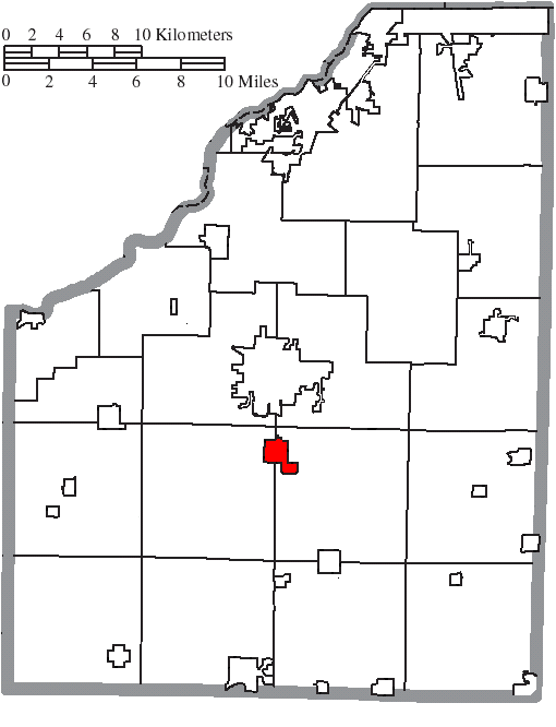 Map of the municipal and township boundaries of Wood County, Ohio, United States, as of the 2000 census, with the location of the village of Portage highlighted. Township borders are shown only in unincorporated areas in order to differentiate incorporated and unincorporated areas more clearly.